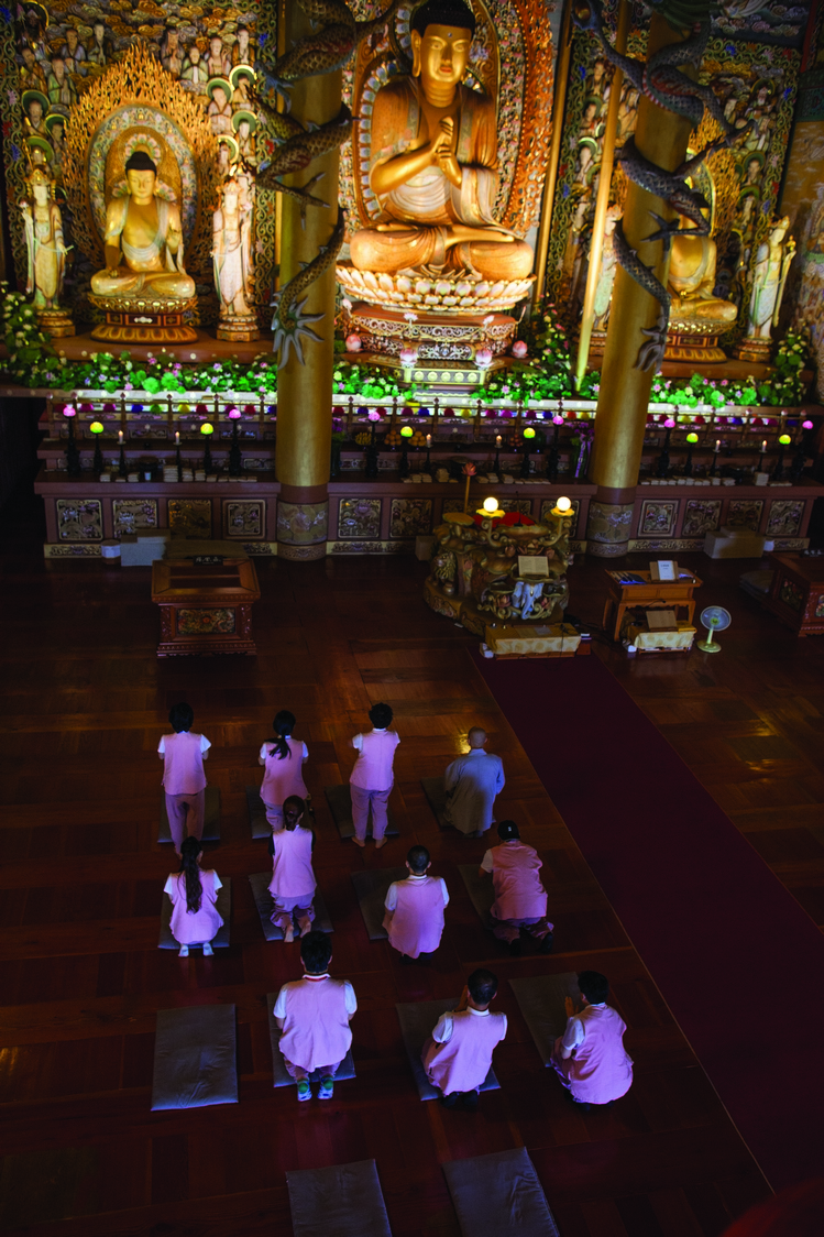 Yakchun temple in South Korea(templestay)